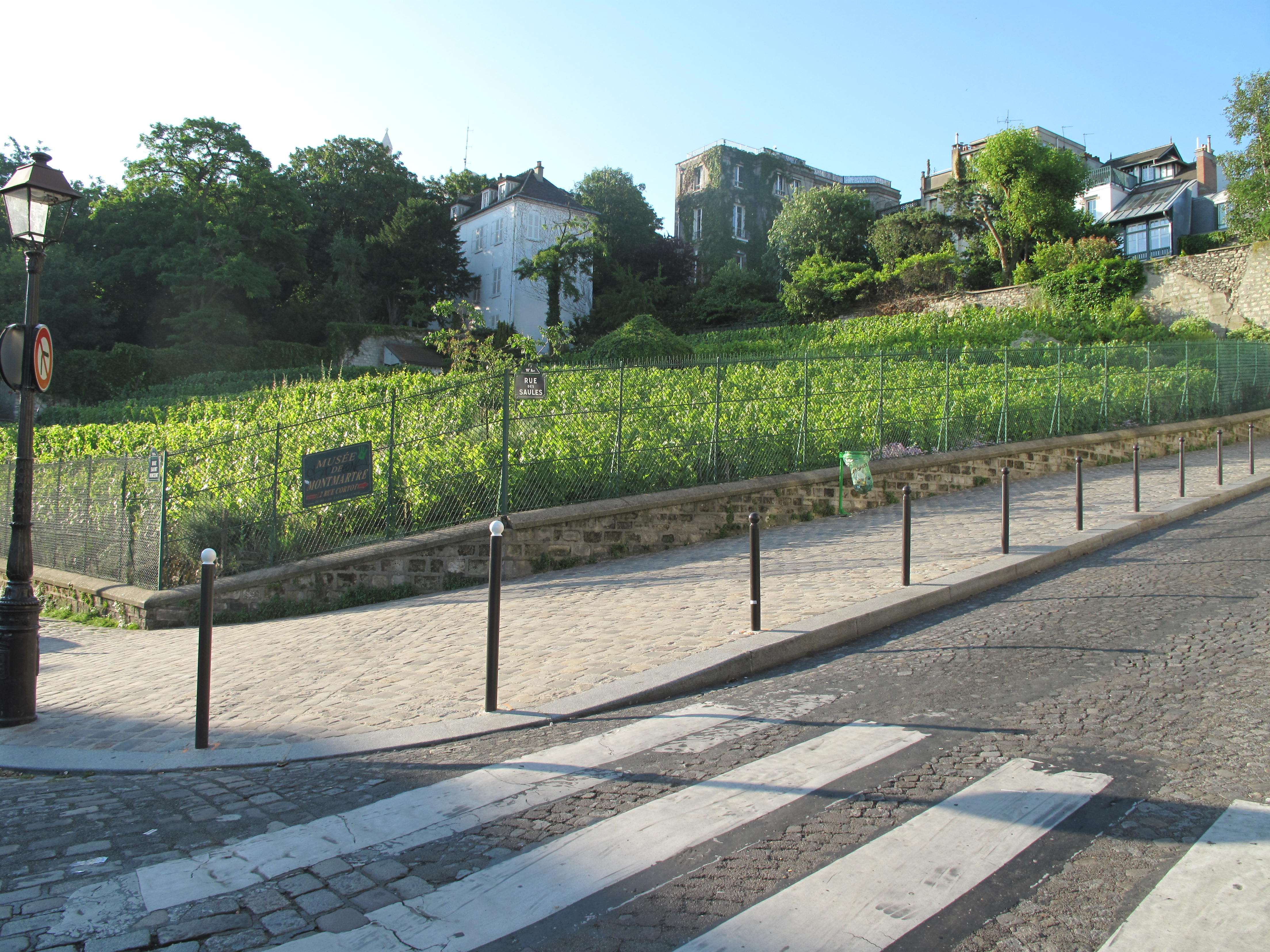 The small vineyard of Montmartre at the corner of the rue des Saules and rue Saint-Vincent, Paris, 18th arr.